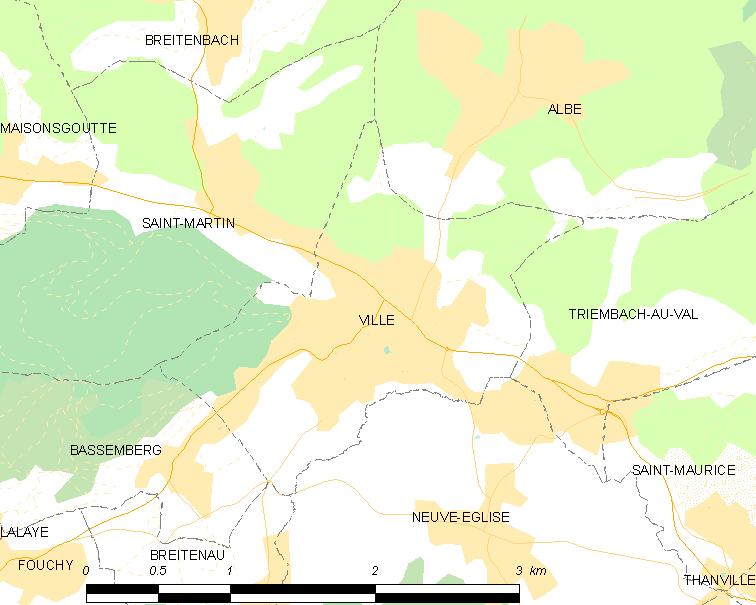 Map of French municipality